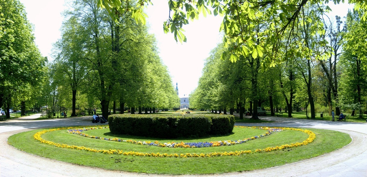 Town Park in Zamość - main avenue from the north